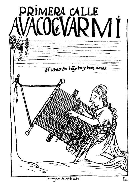 Aymara weaver